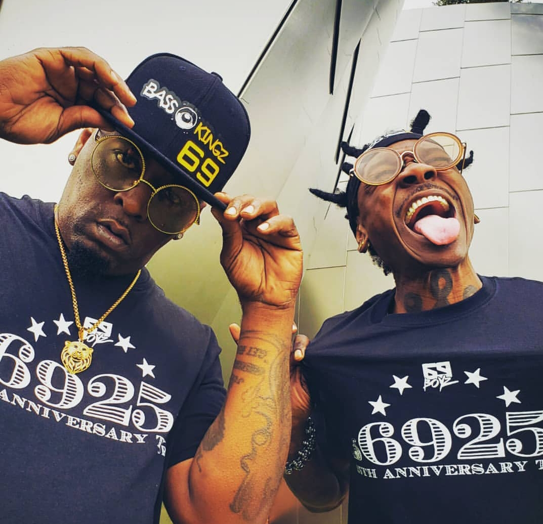 6925 Signature Tee